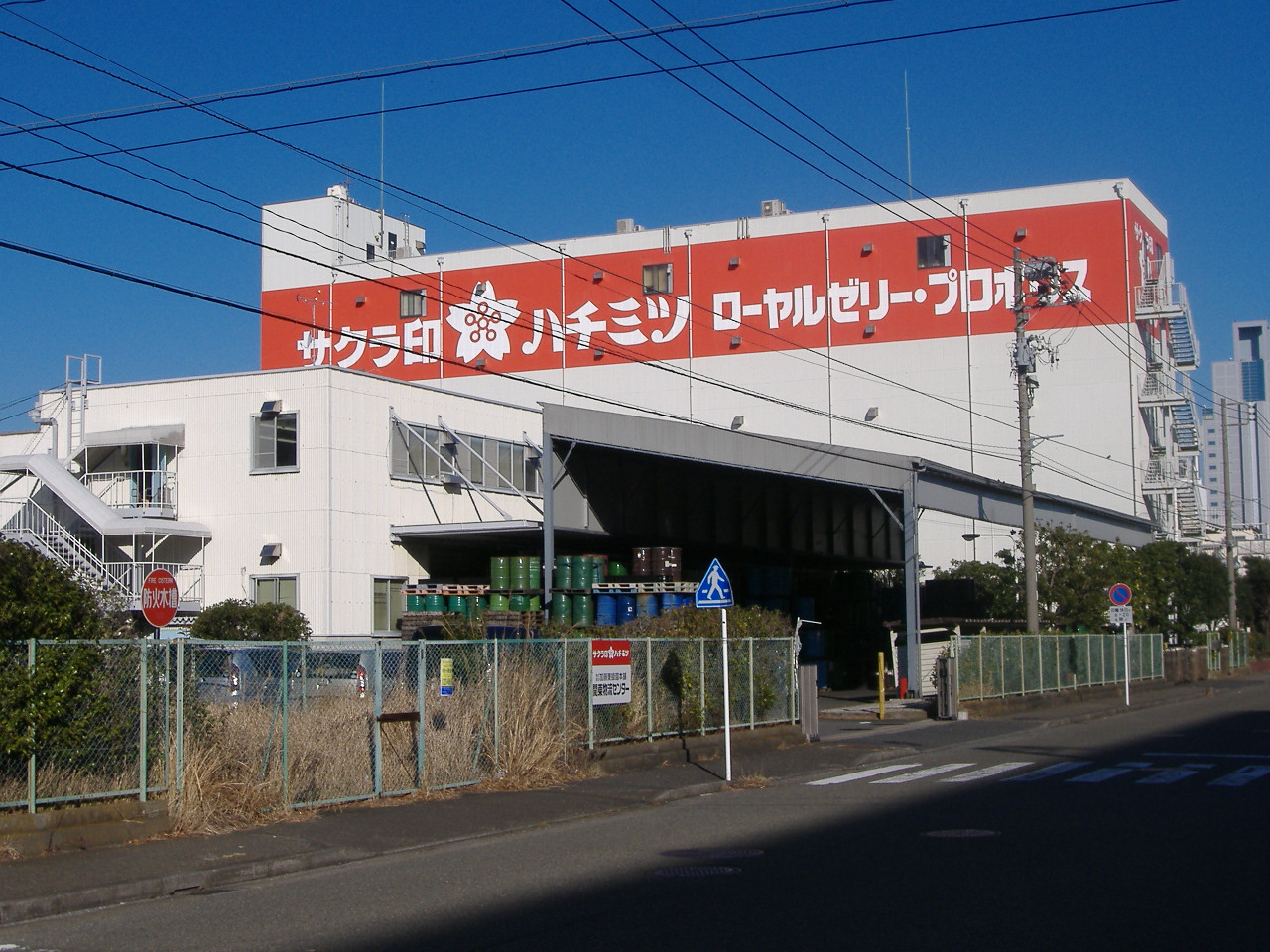 Sakurahoney Yokohama factory